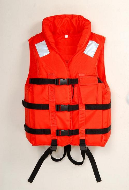 Standard universal life jacket